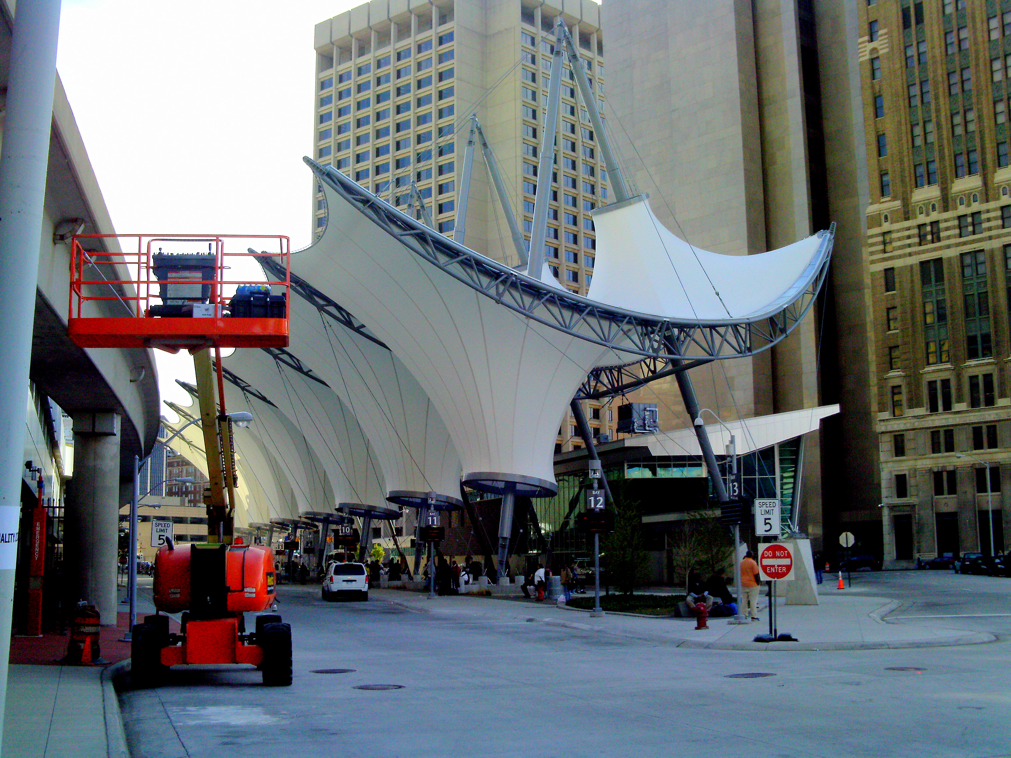 Rosa Parks Bus Terminal, Detroit